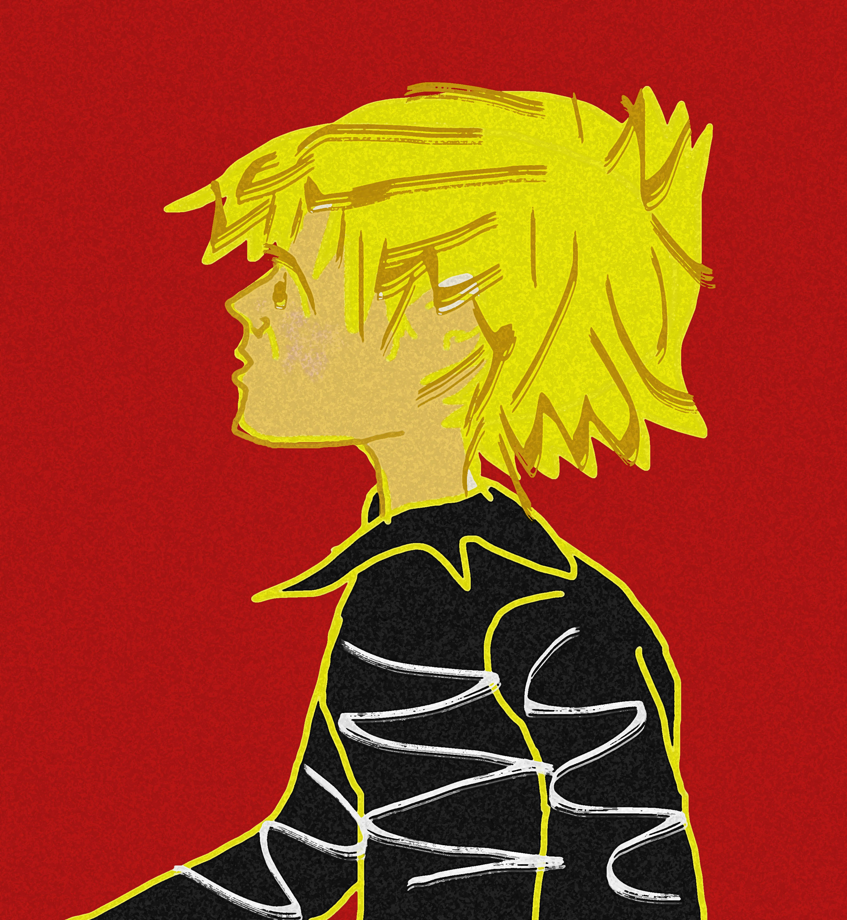 modern digital art